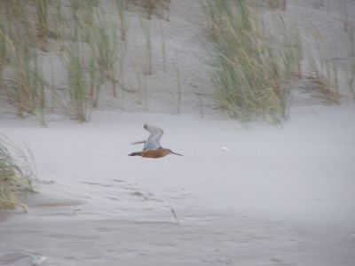 Limosa lapponica flying over the beach at the Baltic seaside in Poland